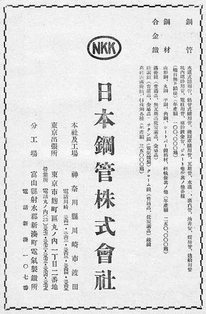 Nihon Kokan advertisement in 1930s